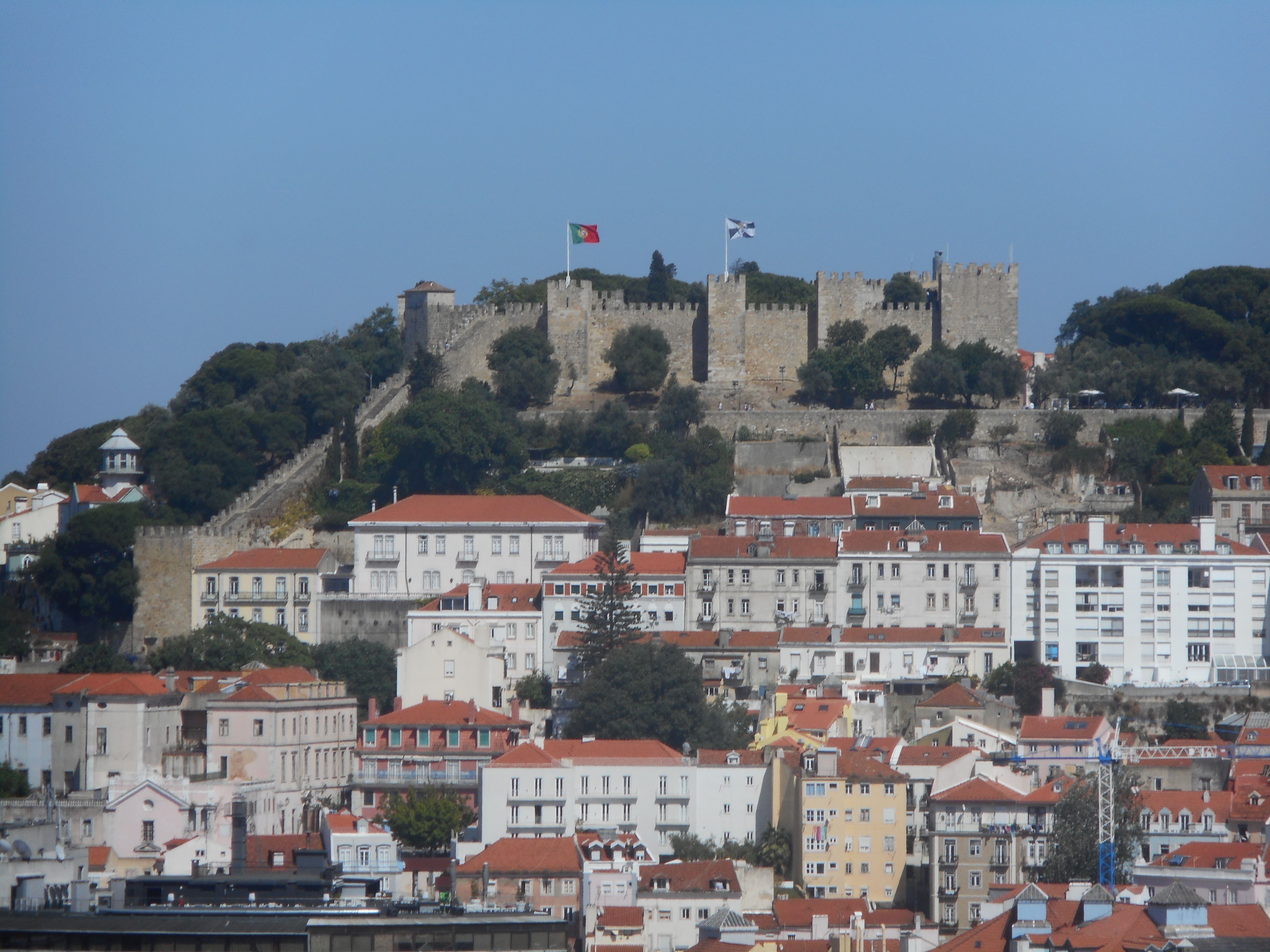 St George's Castle, Lisbon